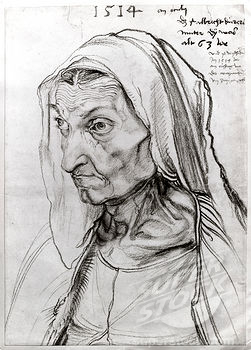 Portrait of the artists mother at the age of 63